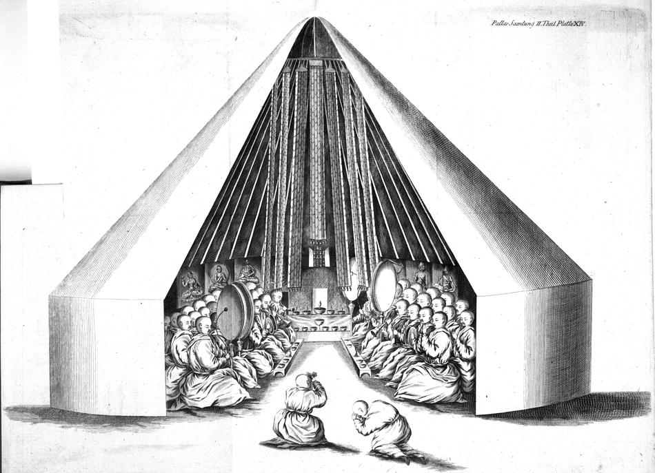 Mongolian Buddhist Temple in the eighteenth century